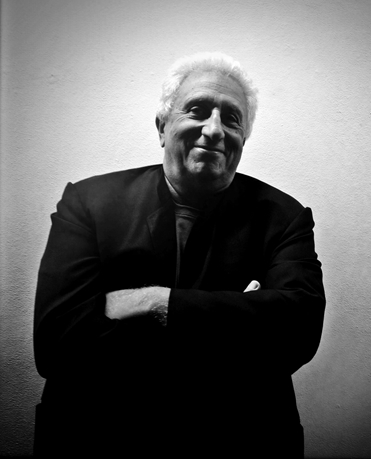 Massimo Vitali, italian photographer in september 2013